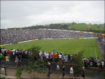 Arena Jacare